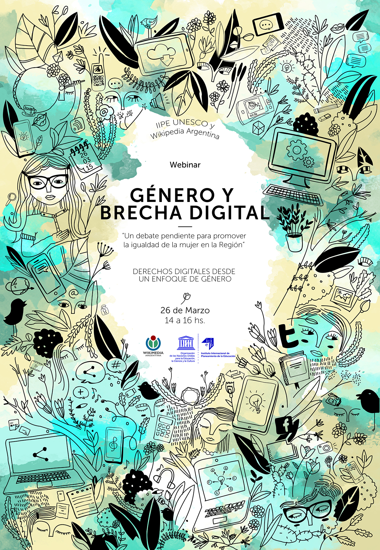 Webinar Mes de la mujer Argentina